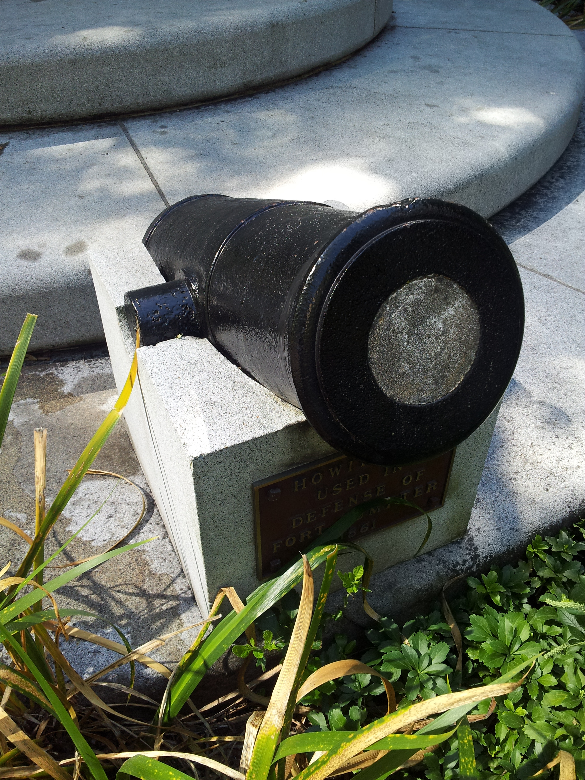 Spanish American War monument, Portland (2014). ***NOTE- this Civil War artillery artifact from Fort Sumter was found buried in Charleston, South Carolina and placed in this memorial.